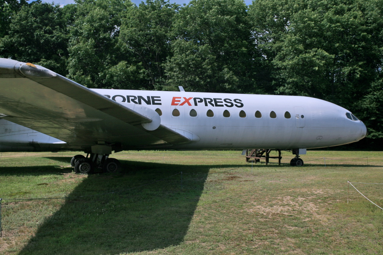 The museum's Caravelle was initially purchased by United Airlines and later went to Sterling Airlines of Denmark. It was then sold to Airborne Express who donated it to the museum in 1982.